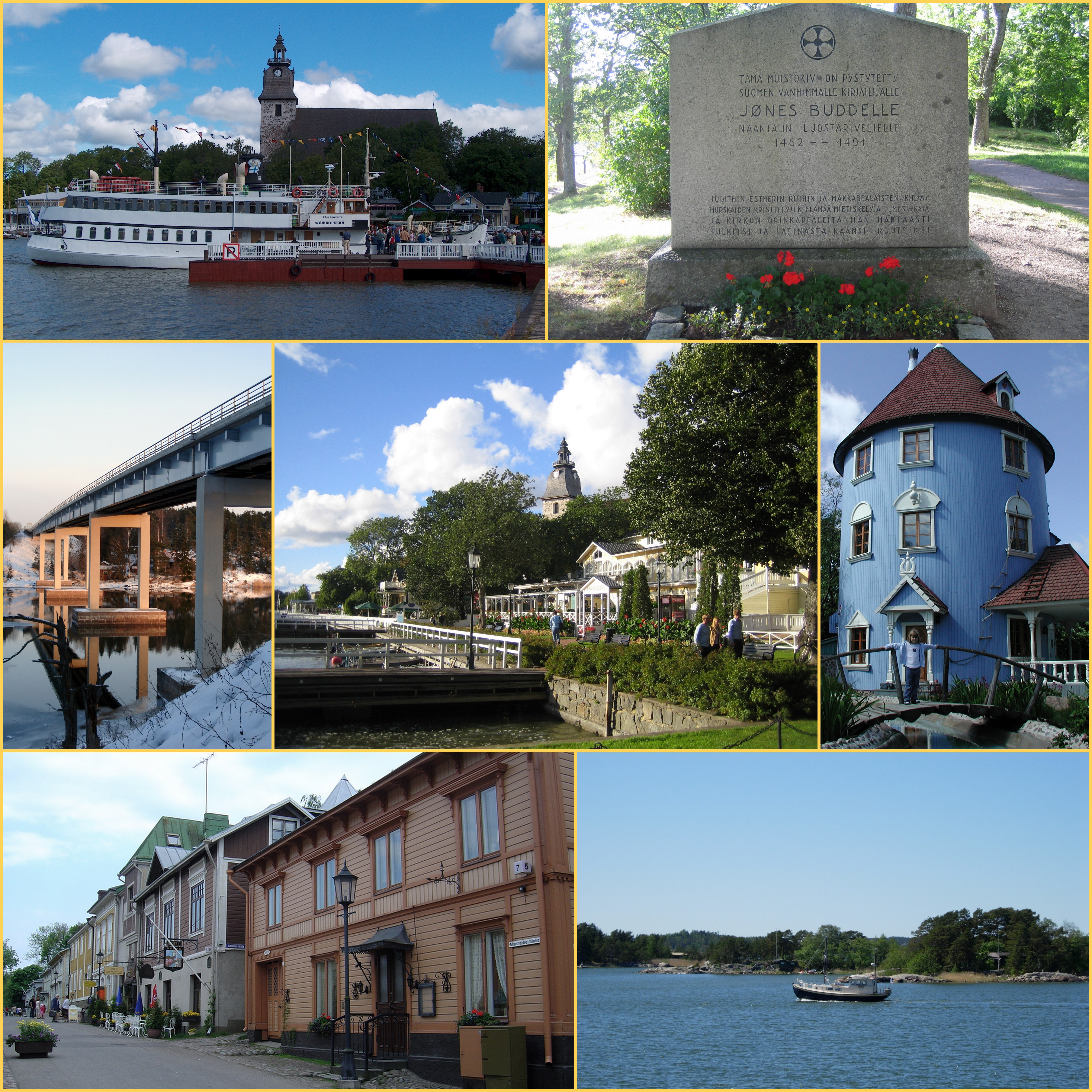 Images, from top, left to right: Top left: Church of Naantali and SS Ukkopekka by Timo Renberg (GFDL) Top right: Jöns Budde statue by Tomisti (GDFL) Middle left: Särkänsalmi bridge by Markus Rantala (Makele-90) (CC-by-3.0) Middle: the guest harbour and old city of Naantali by Tomisti (GFDL) Middle right: Moomin's haus in Muumimaailma (Moominsland) by Pawel Drozd (Drozdp) (GDFL) Bottom left: Naantali old city by Erno Miettinen (CC-by-2.0) Bottom right: Archipelago of Naantali by Samuli Lintula (CC-by-3.0)